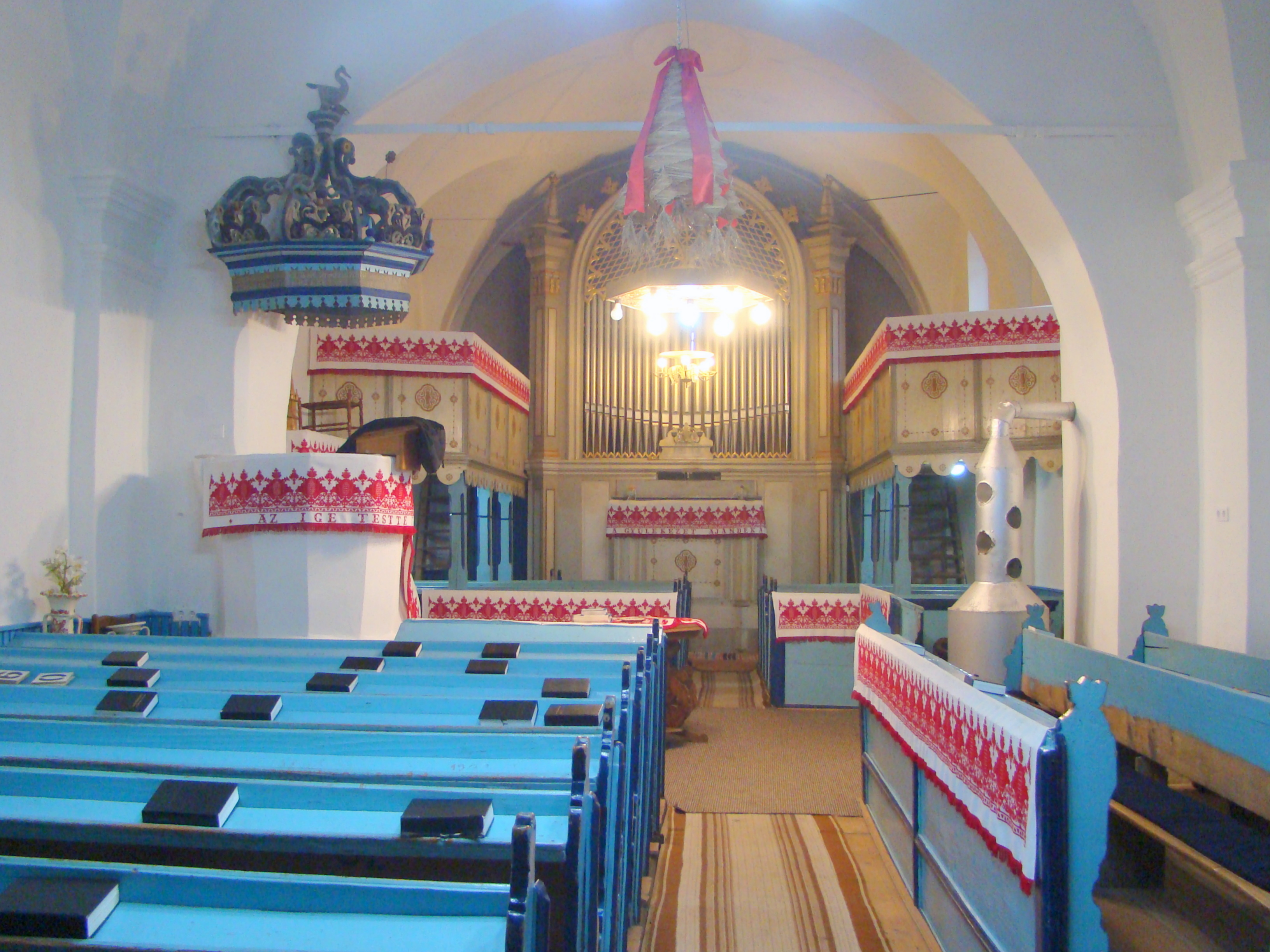 Reformed church in Sărățeni, Mureș County, Romania